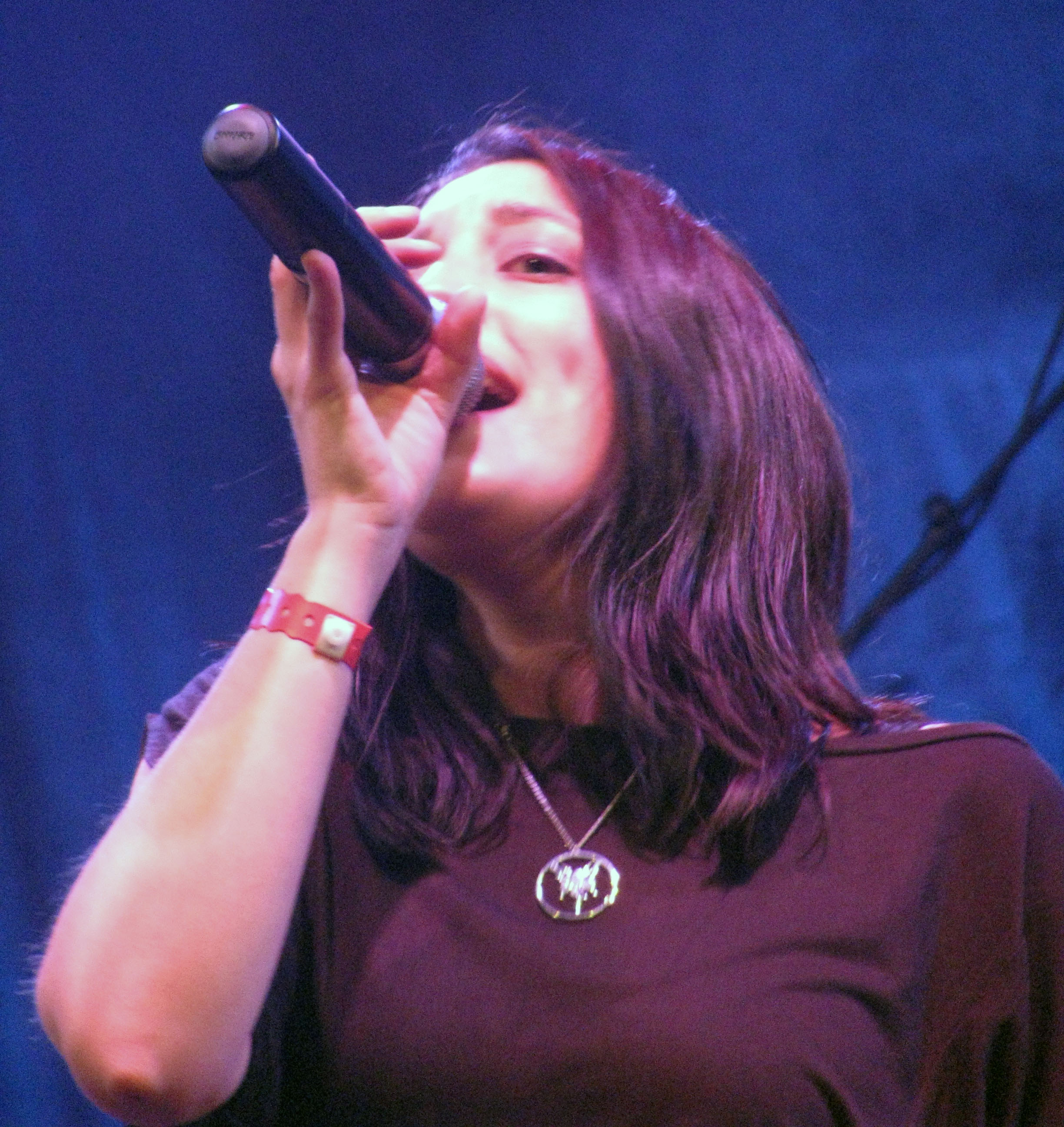 Andrea Dätwyler from Lunatica at Rocksound-Festival 2008